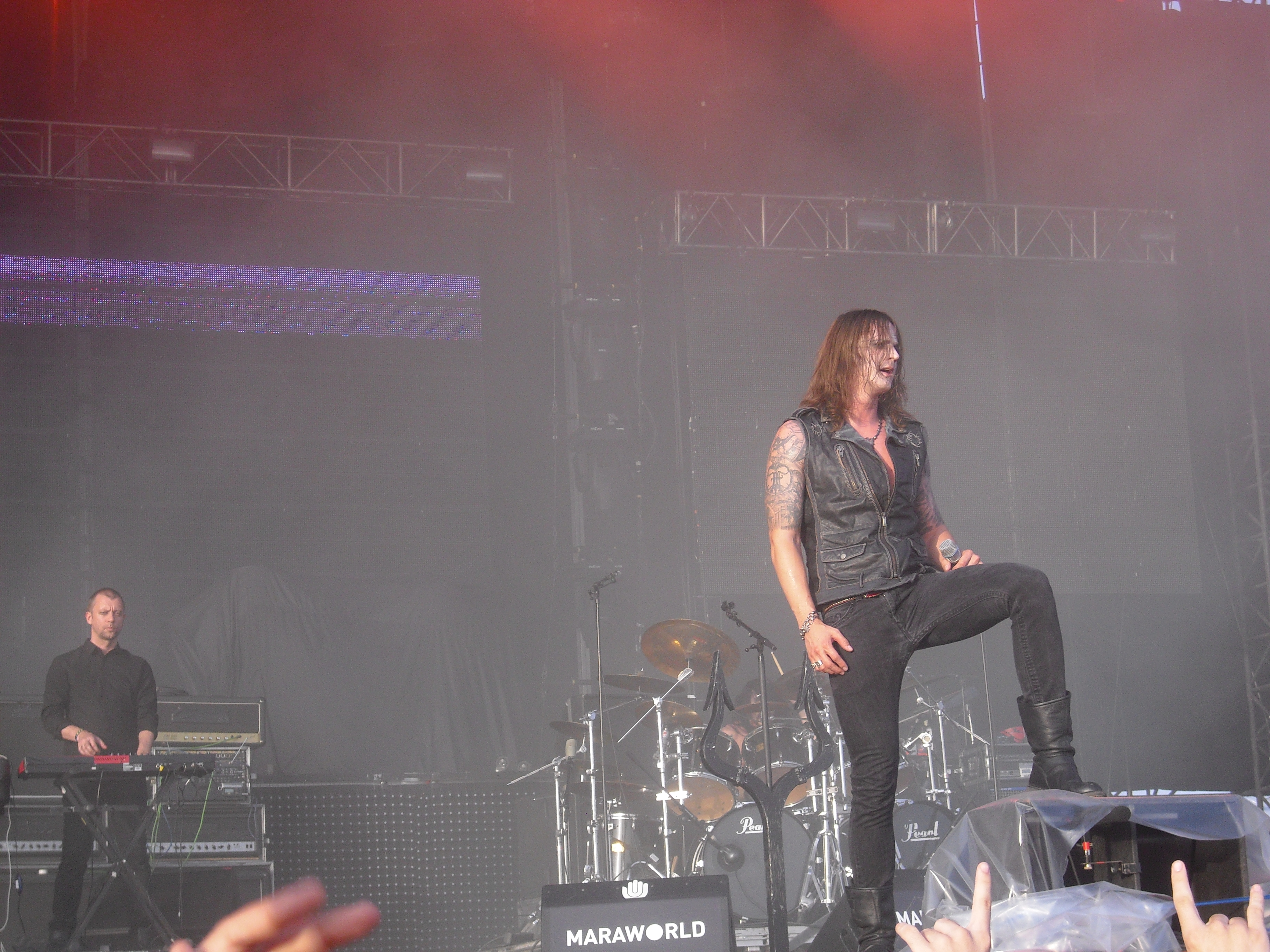 Satyricon performing live at the Costa de Fuego festival in Benicàssim in July 2012